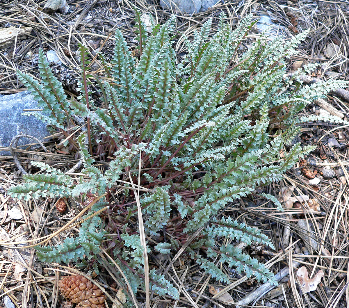 Pedicularis semibarbata subsp. charlestonensis off State Road 158 near Desert View, Spring Mountains, southern Nevada